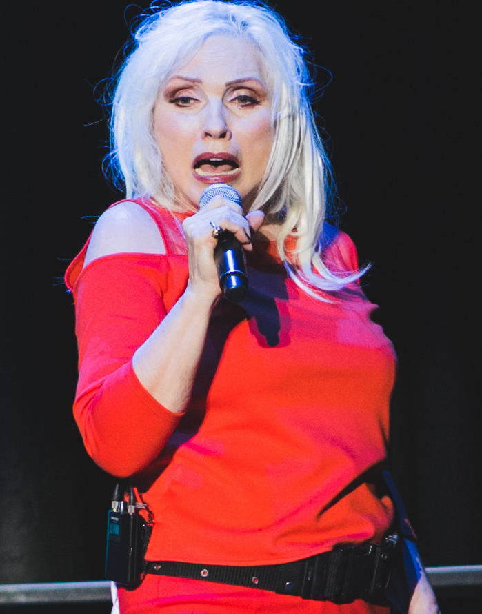 BlondieRoundhouse030517-17